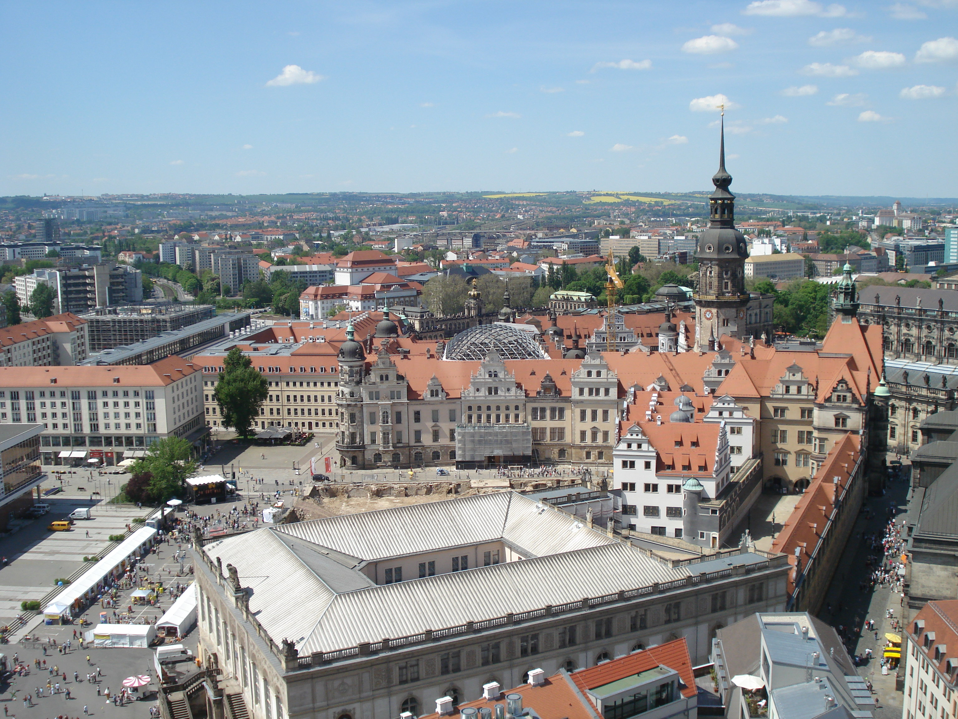 view onto Dresden Castle from the Frauenkirche